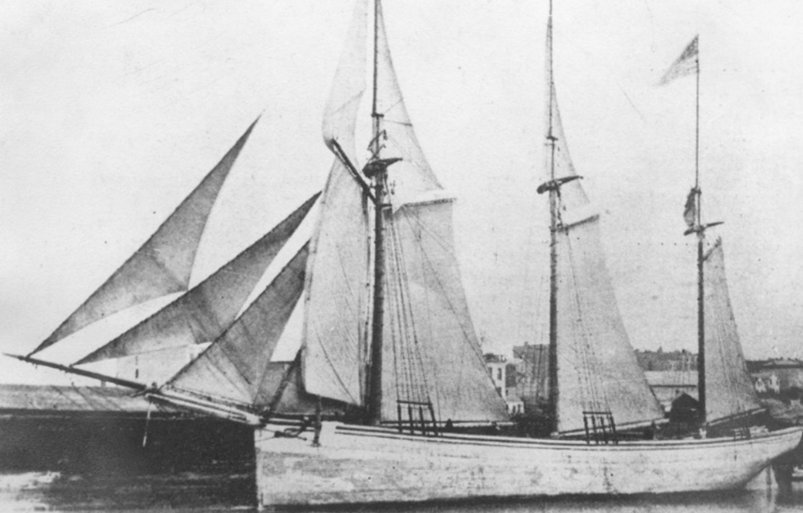 The schooner M.J. Cummings prior to her sinking [1]